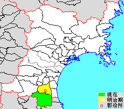 Map of Igu District in Miyagi Prefecture, Japan